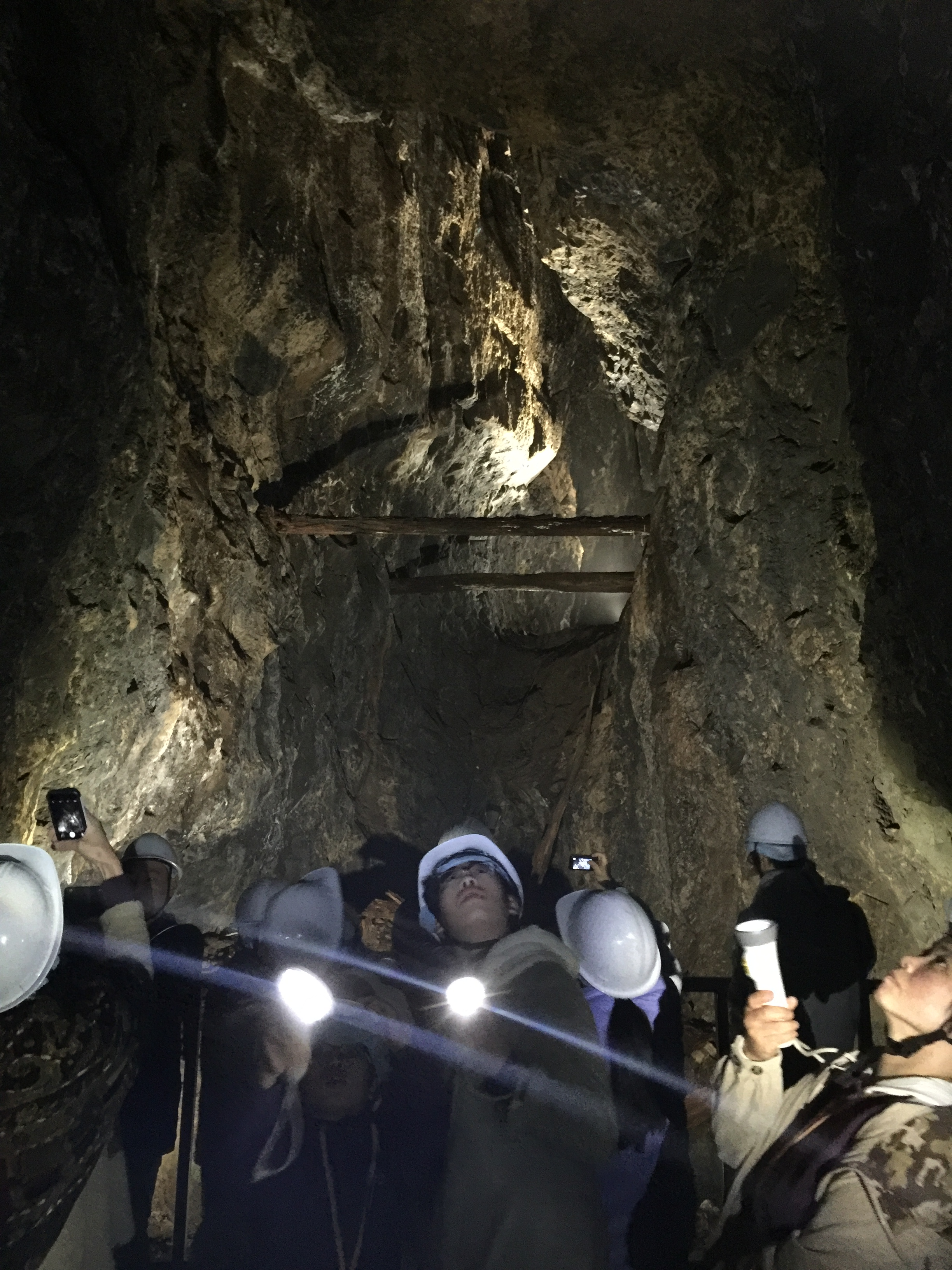 The Iwami Ginzan Silver Mine in the south-west of Honshu Island